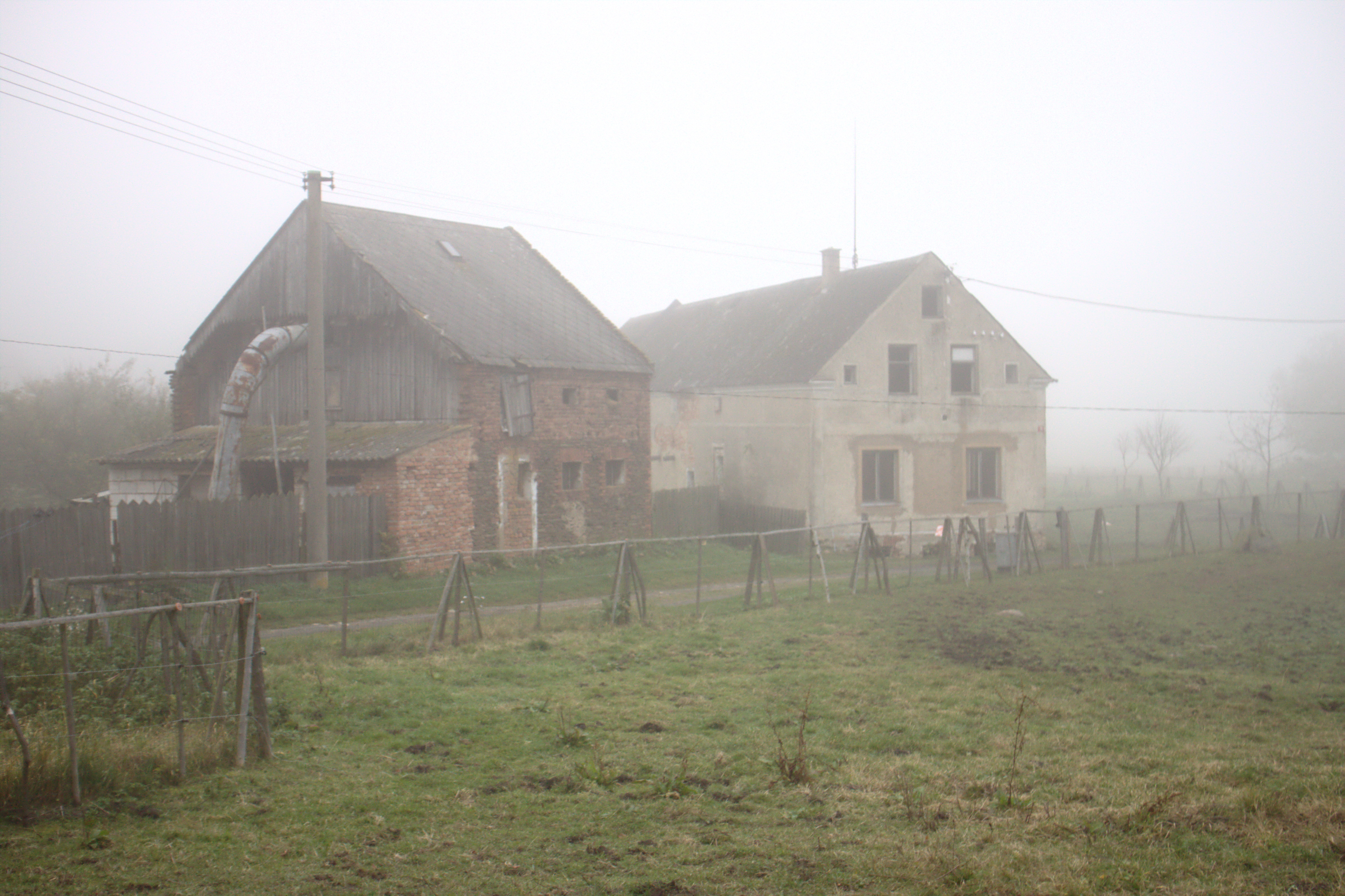 Fog and buildings in the village of Smilov near Toužim